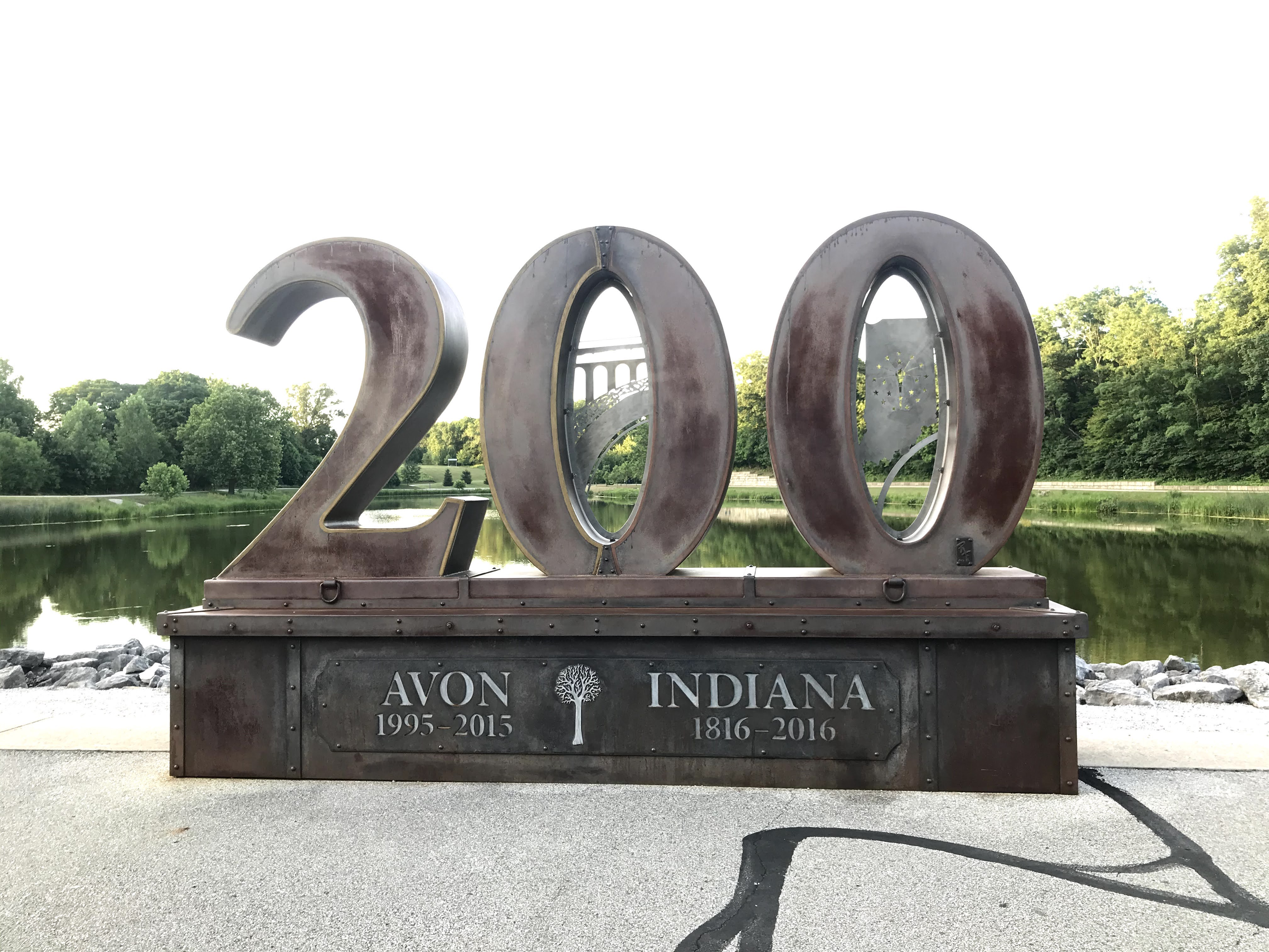 Avon 200 Sculpture